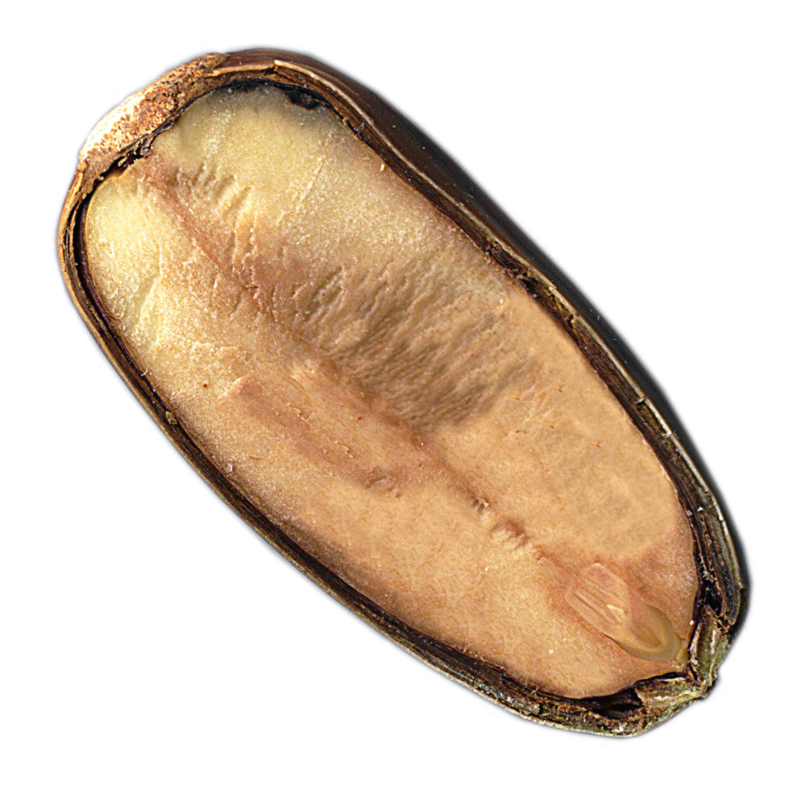 Quercus cerris seed (longitudinal section)